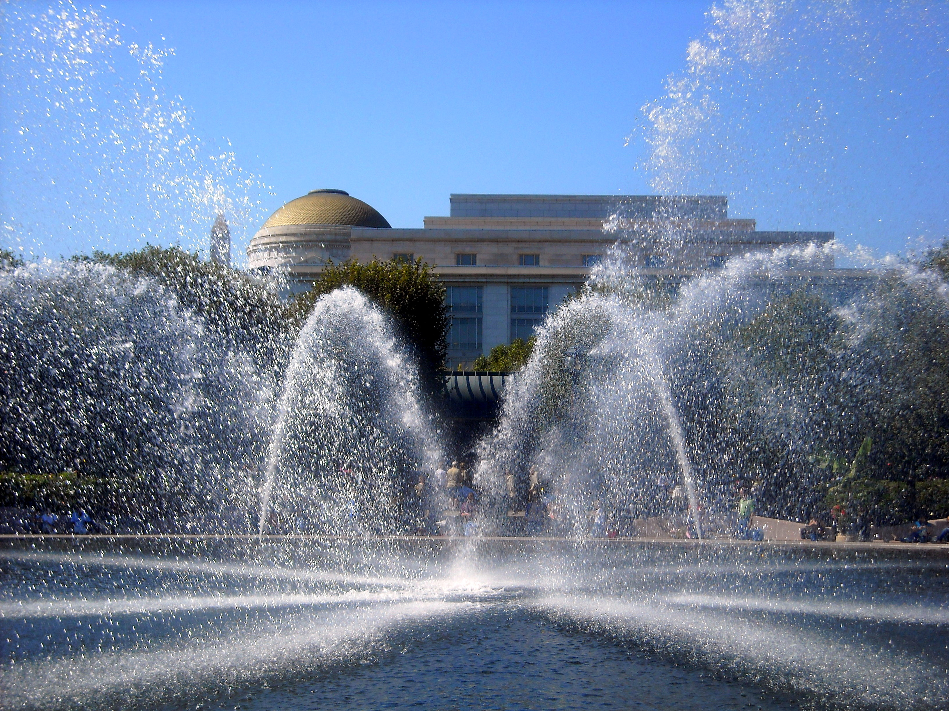 Fountain at the National Gallery of Art Sculpture Garden in Washington The Washington Monument and National Museum of Natural History are in the background.